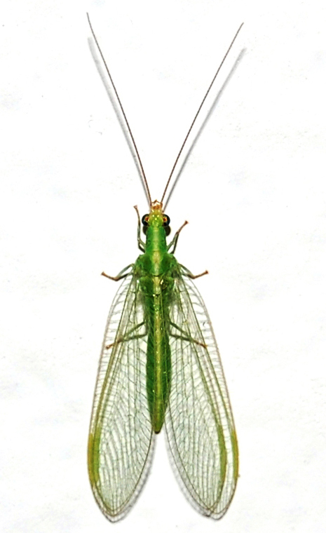 Chrysoperla mediterranea